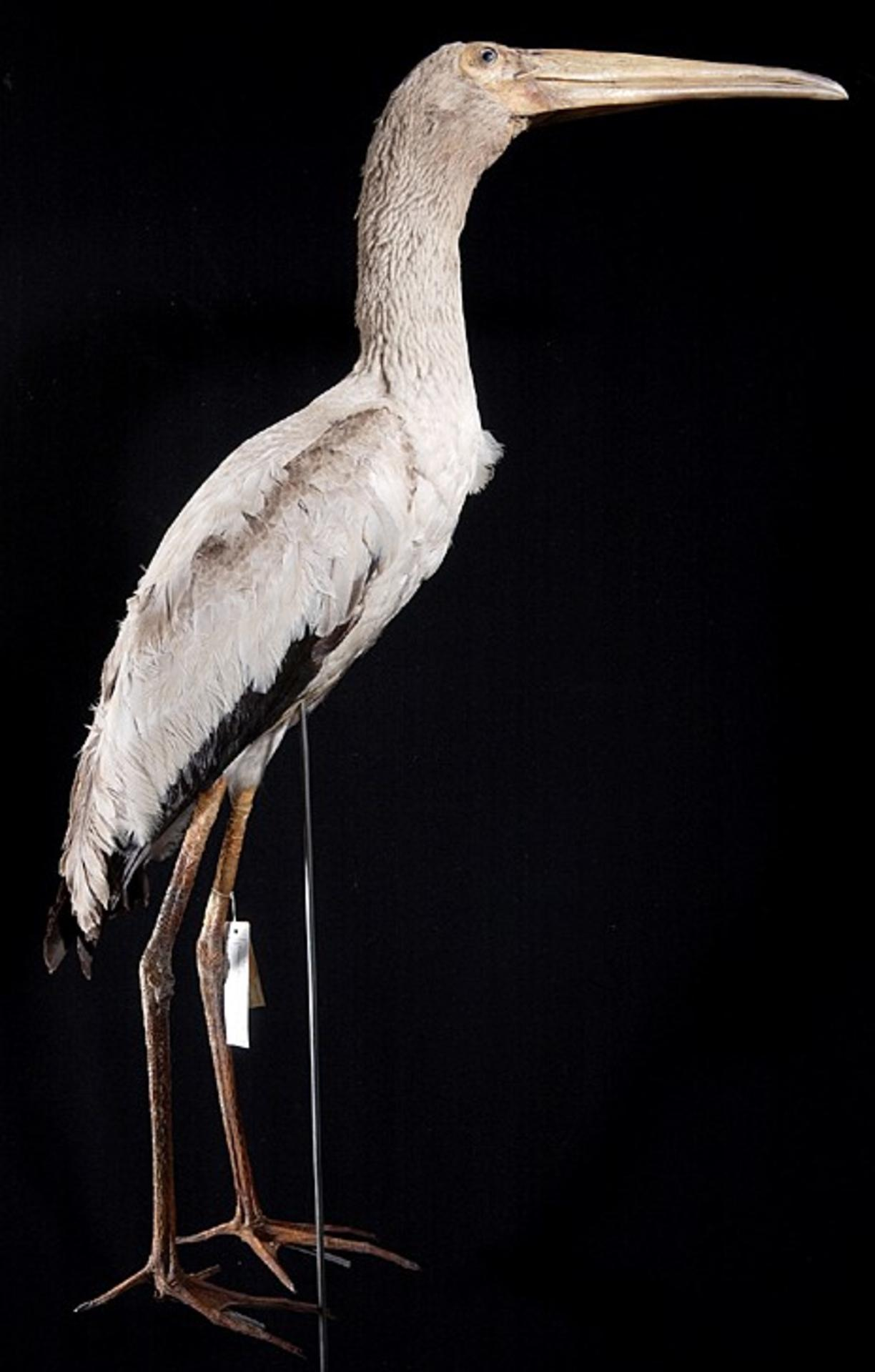 Mycteria cinerea Raffles, 1822